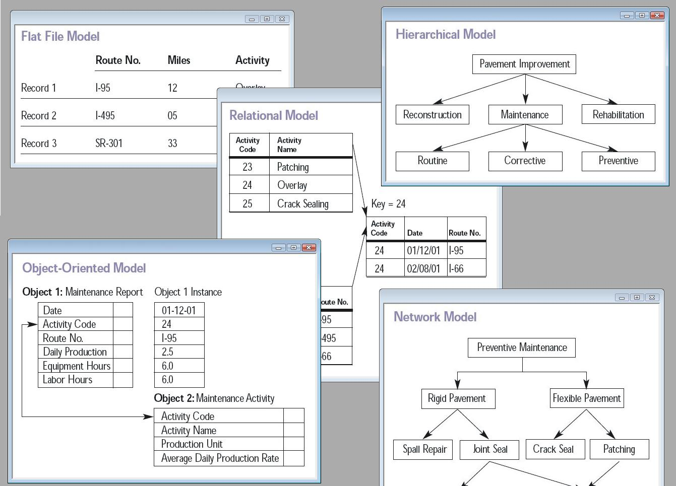 Collage of five database models File:Flat File Model.jpg File:Hierarchical Model.jpg File:Relational Model 2.jpg File:Object-Oriented Model.jpg File:Network Model.jpg